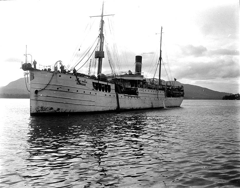 From John Cobb field notebook: U.S. Cable Ship Burnside at Ketchikan. June 29, 1911 Subjects (LCSH): Burnside (Ship); Cable ships--Alaska--Ketchikan